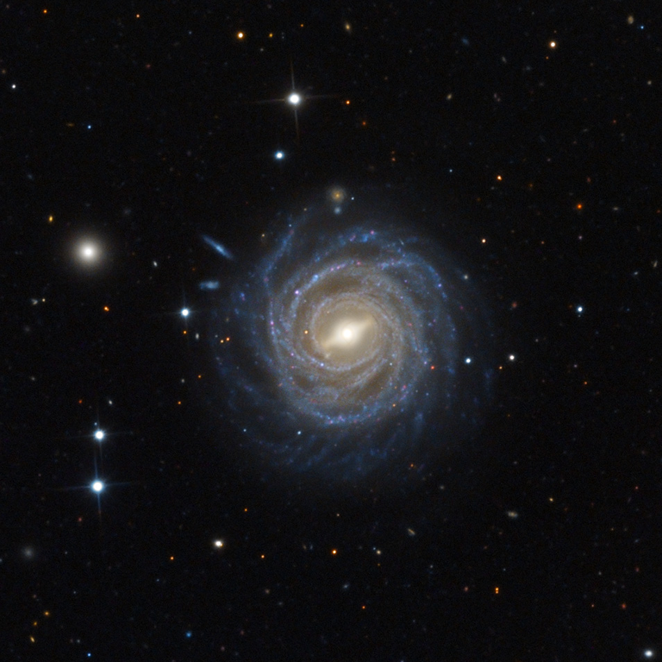 Optics 32-inch Schulman Telescope (RCOS) Camera SBIG STX16803 CCD Camera Filters Astrodon Gen II Dates November 2015 Location Mount Lemmon SkyCenter Exposure LRGB = 9 : 4 : 4 : 4 Hours Acquisition Astronomer Control Panel (ACP), Maxim DL/CCD (Cyanogen), FlatMan XL (Alnitak) Processing CCDStack, Photoshop, PixInsight Guest Astronomers Barry Boyce Credit Line & Copyright Adam Block/Mount Lemmon SkyCenter/University of Arizona